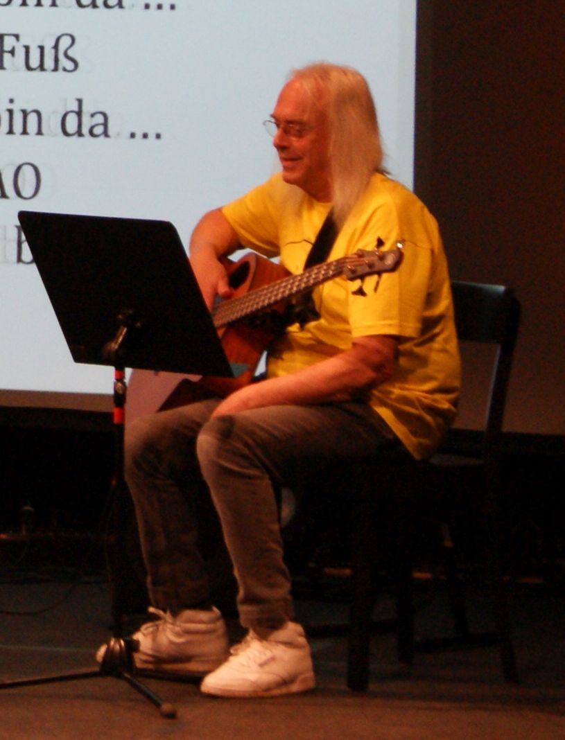 Rolf Aberer at the event "Spring Songs" in 2019 in Spielboden in Dornbirn.